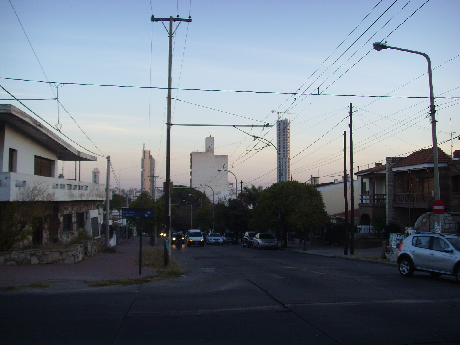 Street in Cofico neighbourhood, Córdoba, Argentina